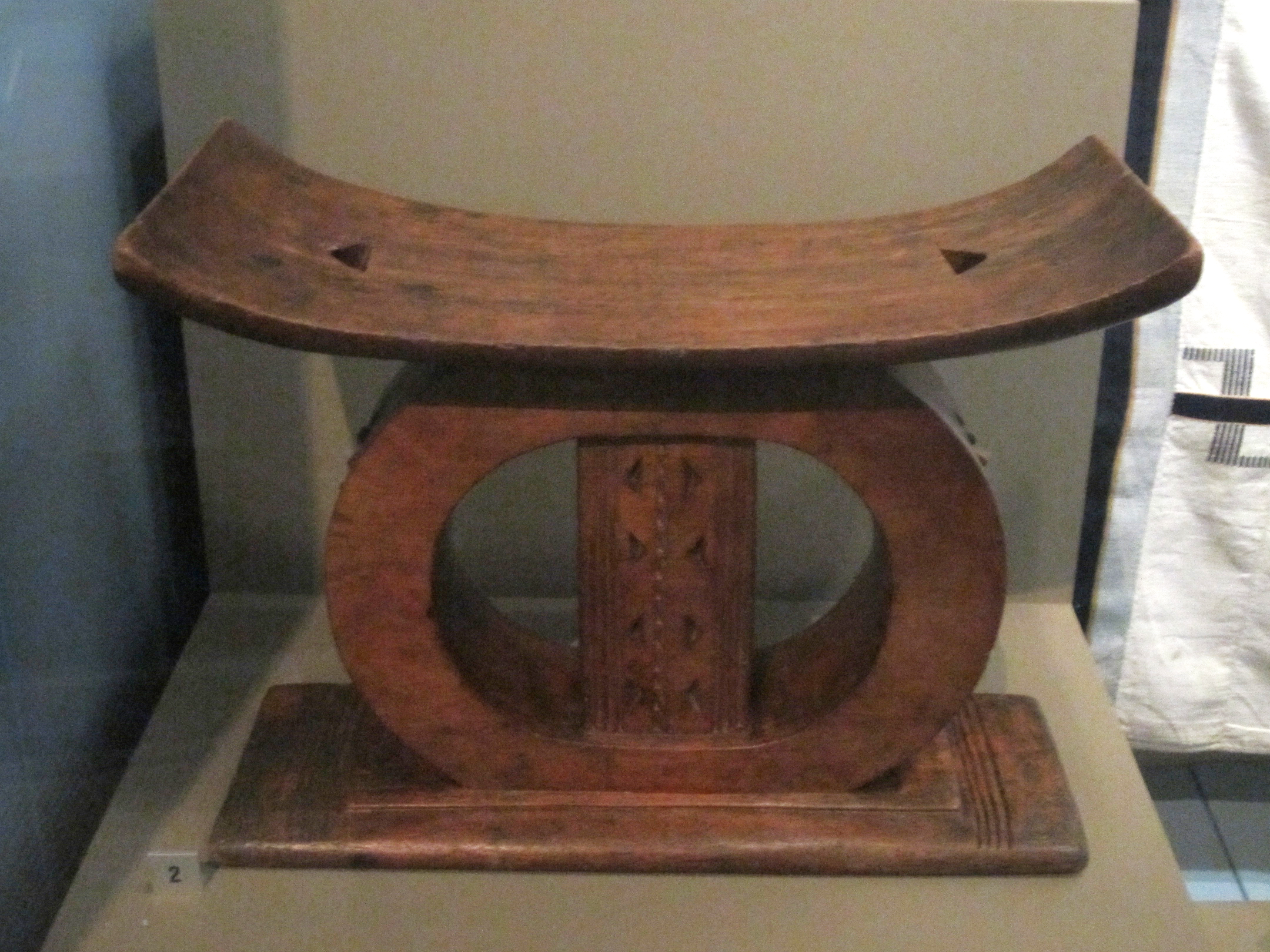 Photo taken at the World Museum Liverpool, England.